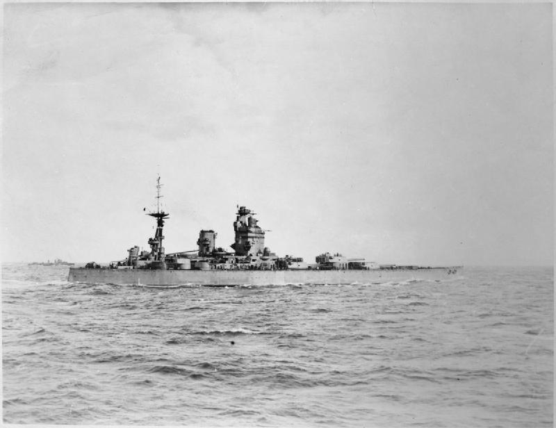 HMS RODNEY, escorted by destroyers (one is visible in the distance) going up the Firth of Forth (photographed from the destroyer JAVELIN).